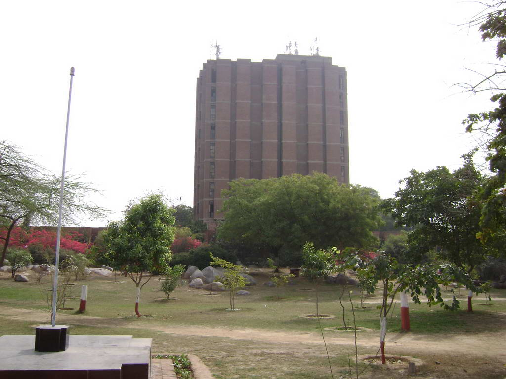 Library building, JNU.